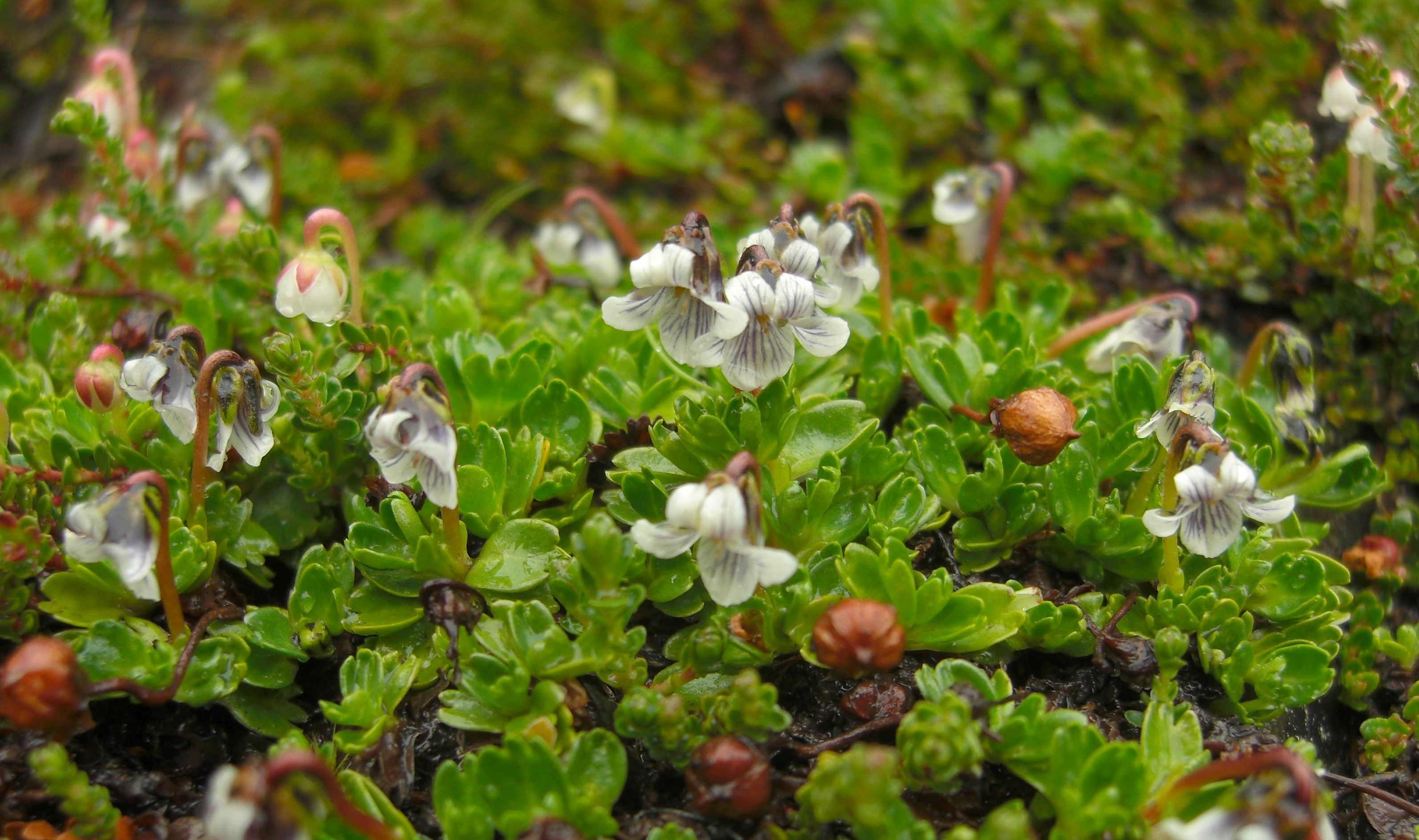 Viola tridentata Menz. Thanks for the ID, Jubaea. It is quite different than all the other violets that are common down here -- either the abundant yellow ones mostly found in forests, or the cushioned violet-blue ones found in the alpine.